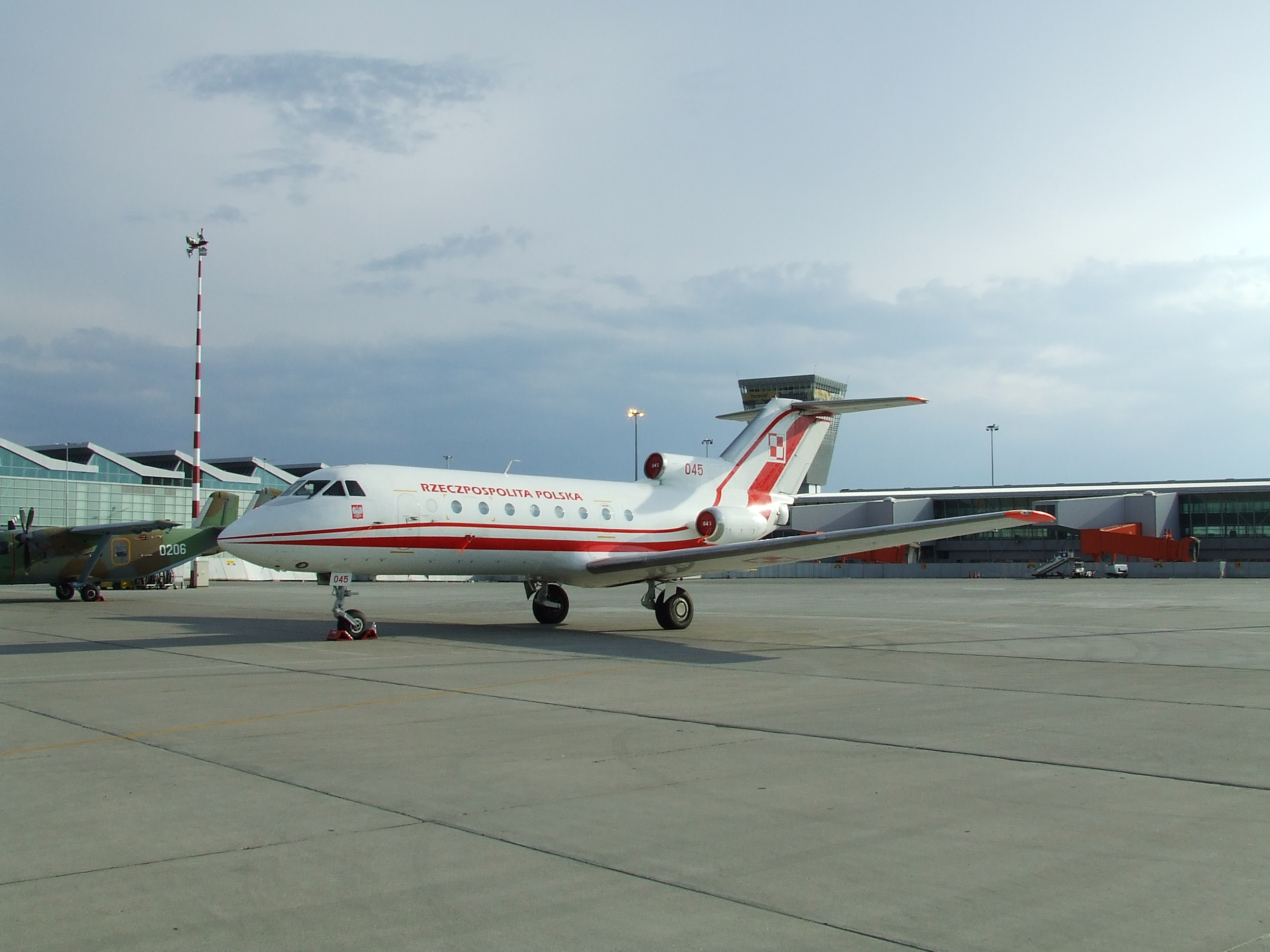 Yakovlev Yak-40 (Jak-40) used by polish goverment, picture taken on Warszawa Okęcie Airport